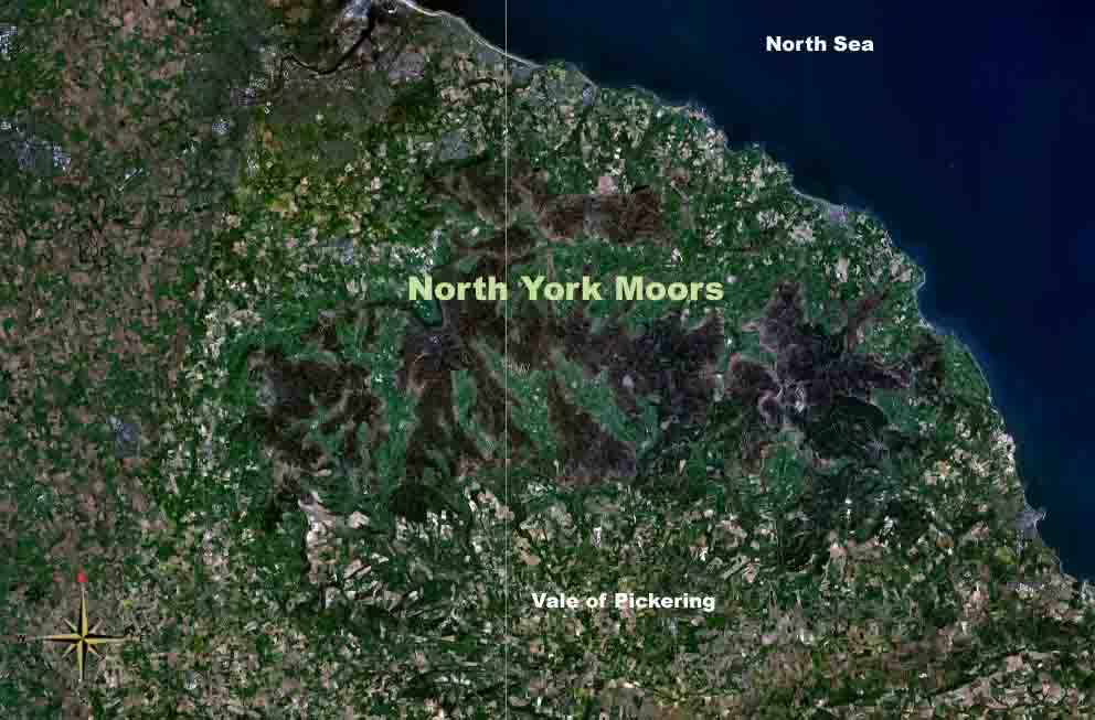 NASA Worldwind Screen Shot North York Moors, UK Text added by Harkey Lodger